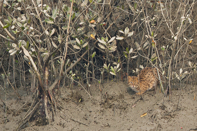 One of the most elusive species from the mangrove forest of Indian Sundarban was photographed during a month long expedition in the month of February 2017.